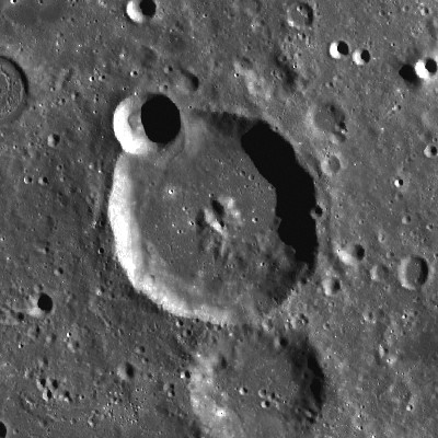 Borman crater LROC image